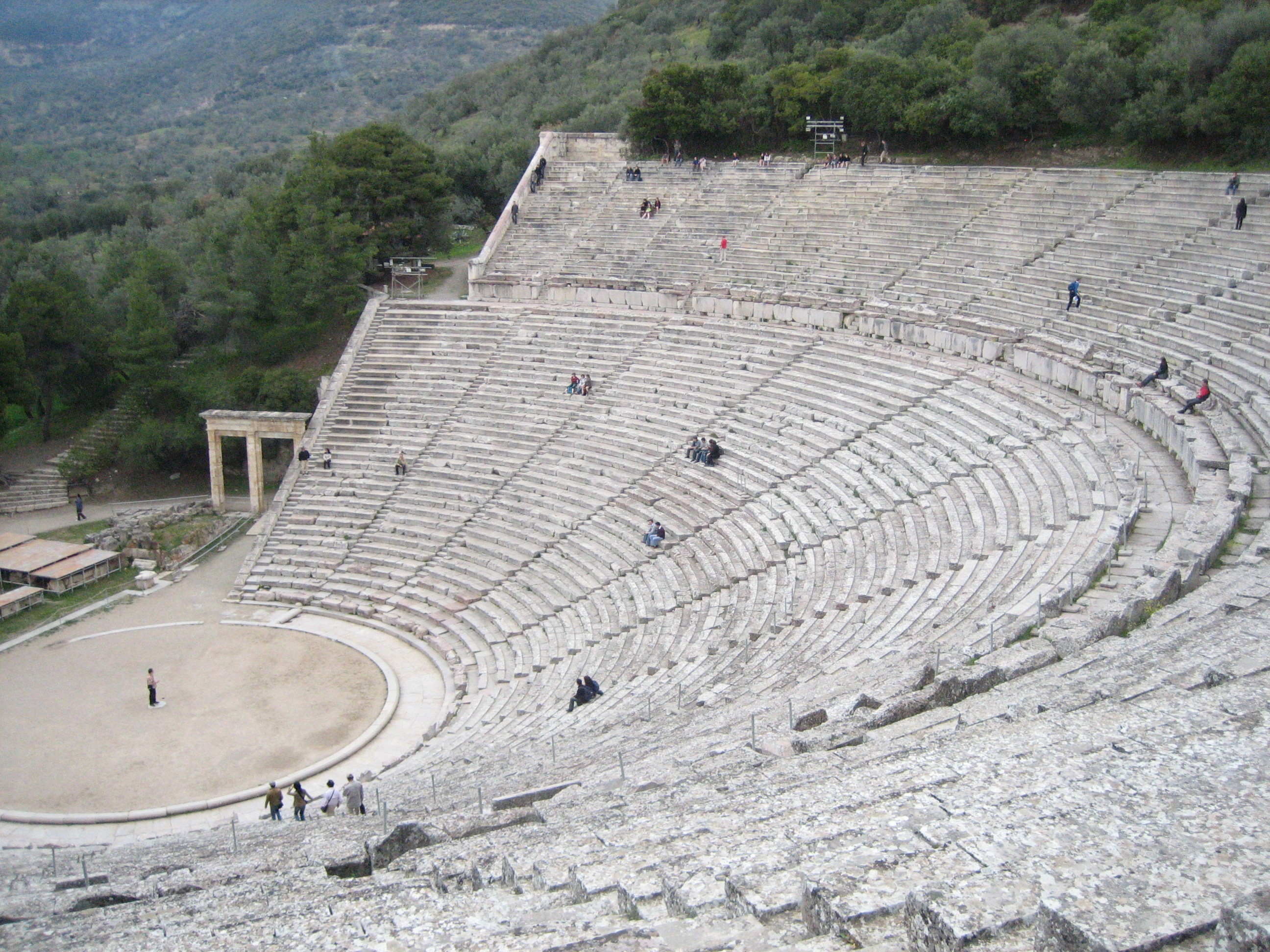 Theatre in Palea Epidavros, Archea Epidavros, municipal unit of Epidaurus, Epidaurus, Argolis, Peloponnese, Greece